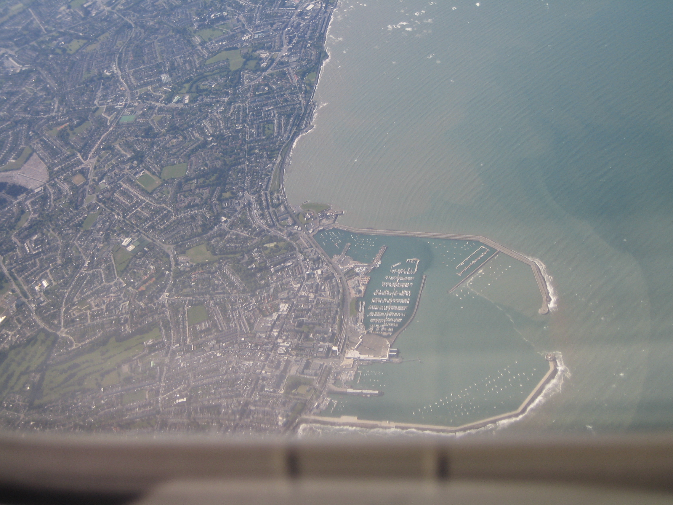 An aerial view of Dun Laoghaire, Ireland